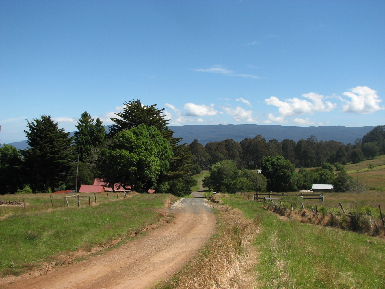 Walhalla Road, Aberfeldy, Victoria, Australia